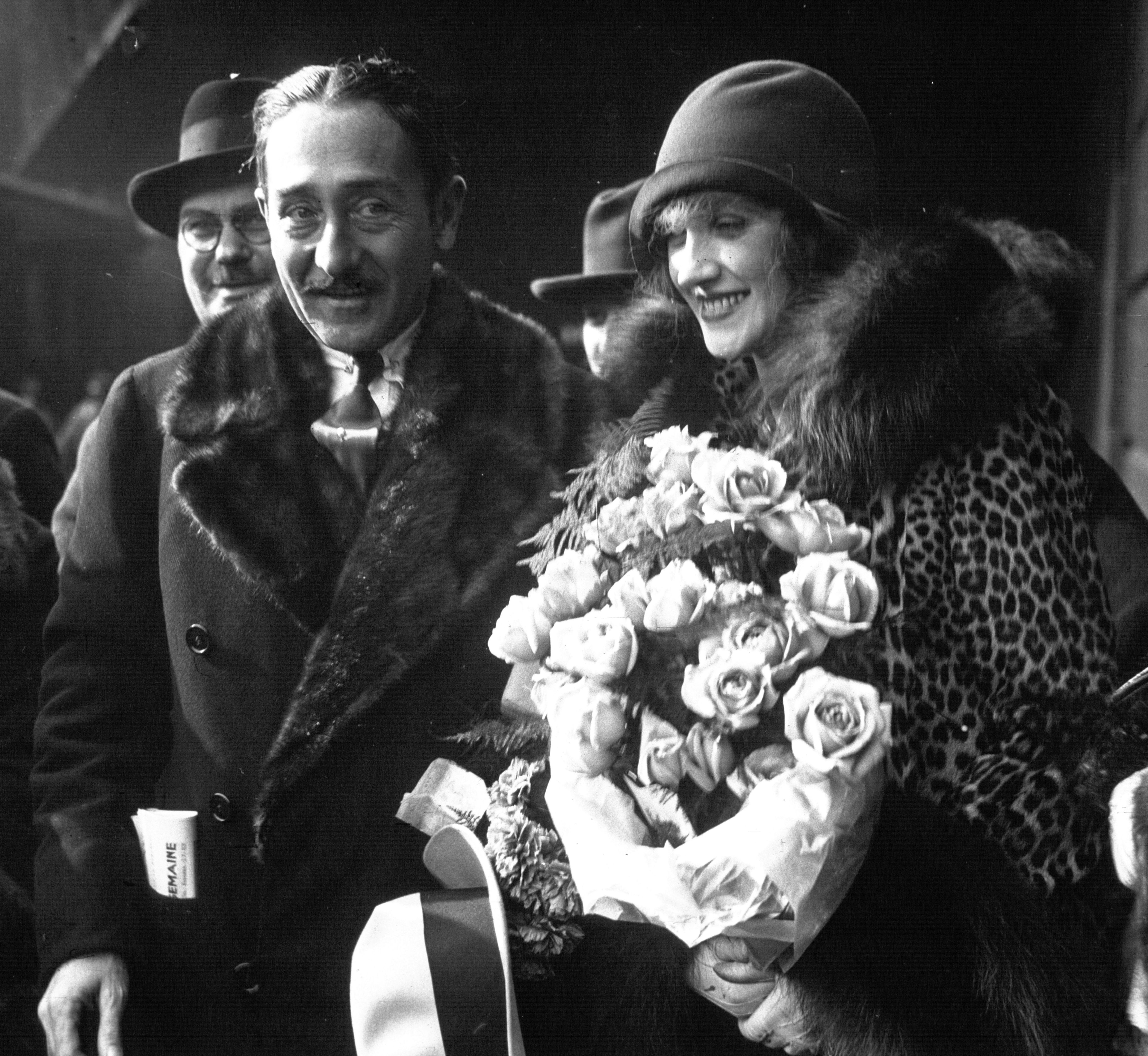 American actors Adolphe Menjou (1890-1963) and Kathryn Carver (1899-1947) shortly before their marriage in Paris in 1928.